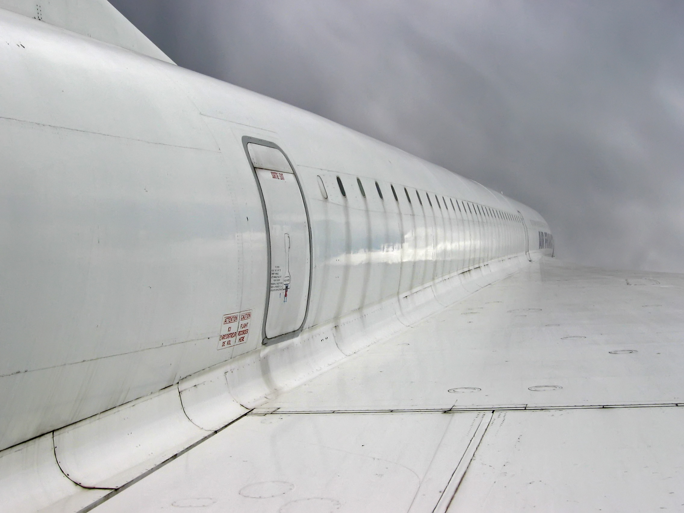 Fuselage of the Air France Concorde F-BVFB at the Auto- und Technikmuseum Sinsheim, Germany.